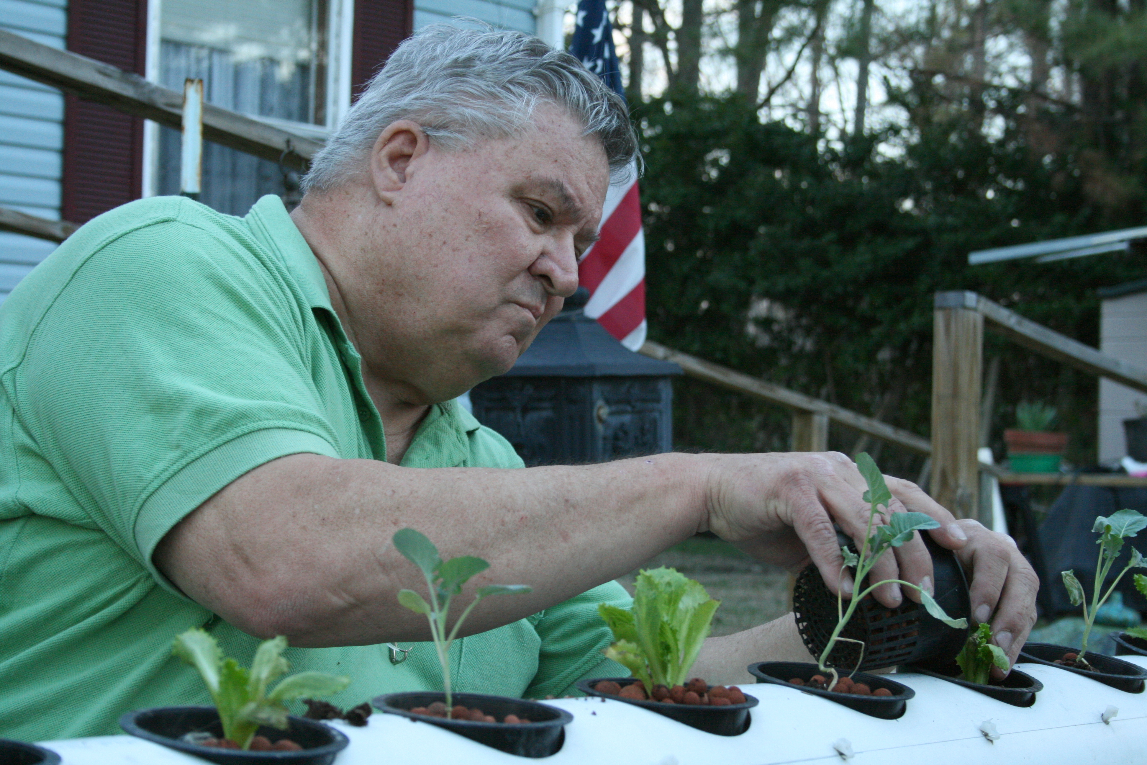 Rix Dobbs plants vegetables in his home-built nutrient film technique hydroponic system in Durham, North Carolina.